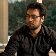 Krzysztof Kotowski